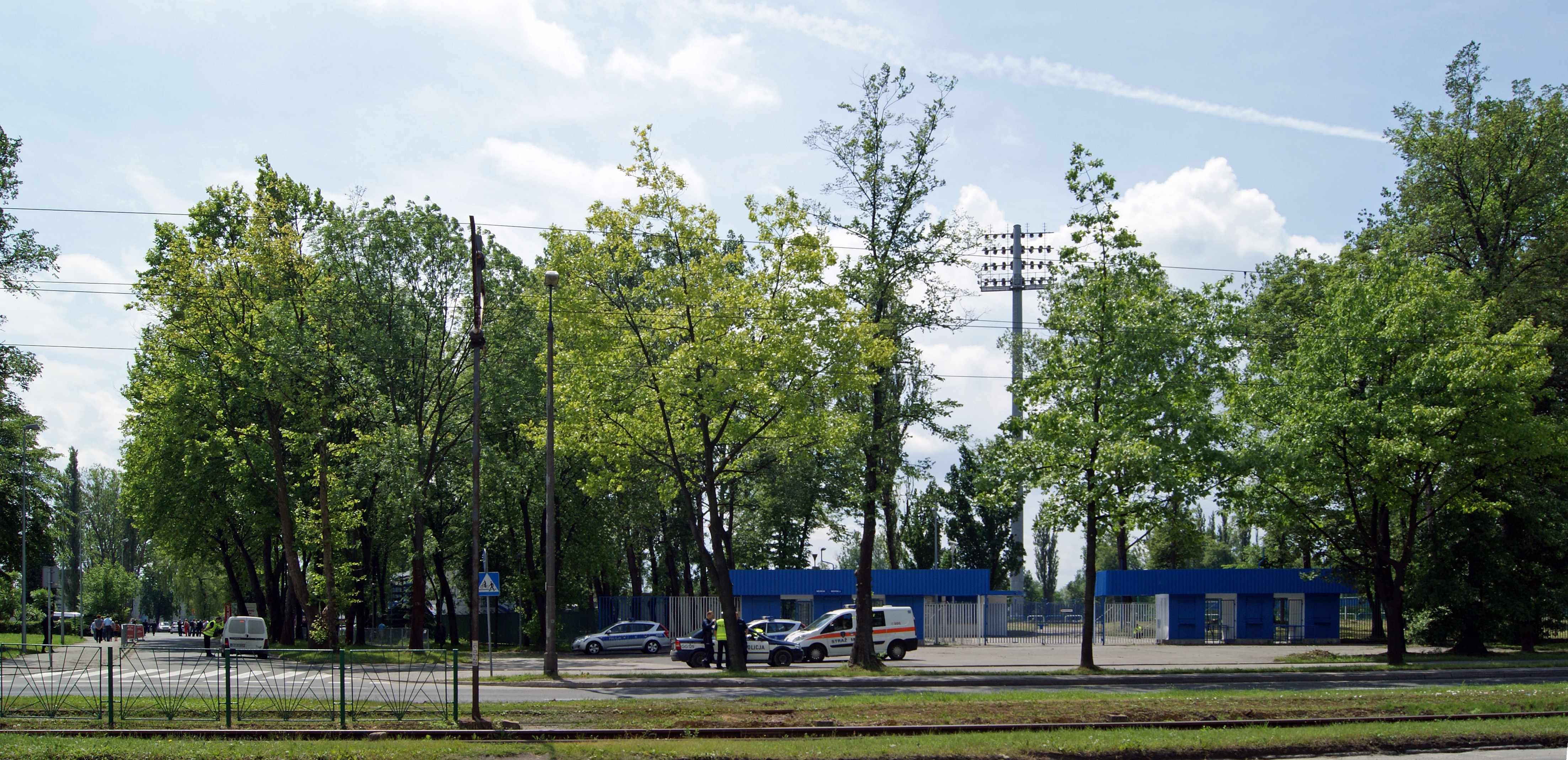 SC Hutnik Nowa Huta Stadium, 4 Ptaszyckiego street, Nowa Huta, Krakow, Poland